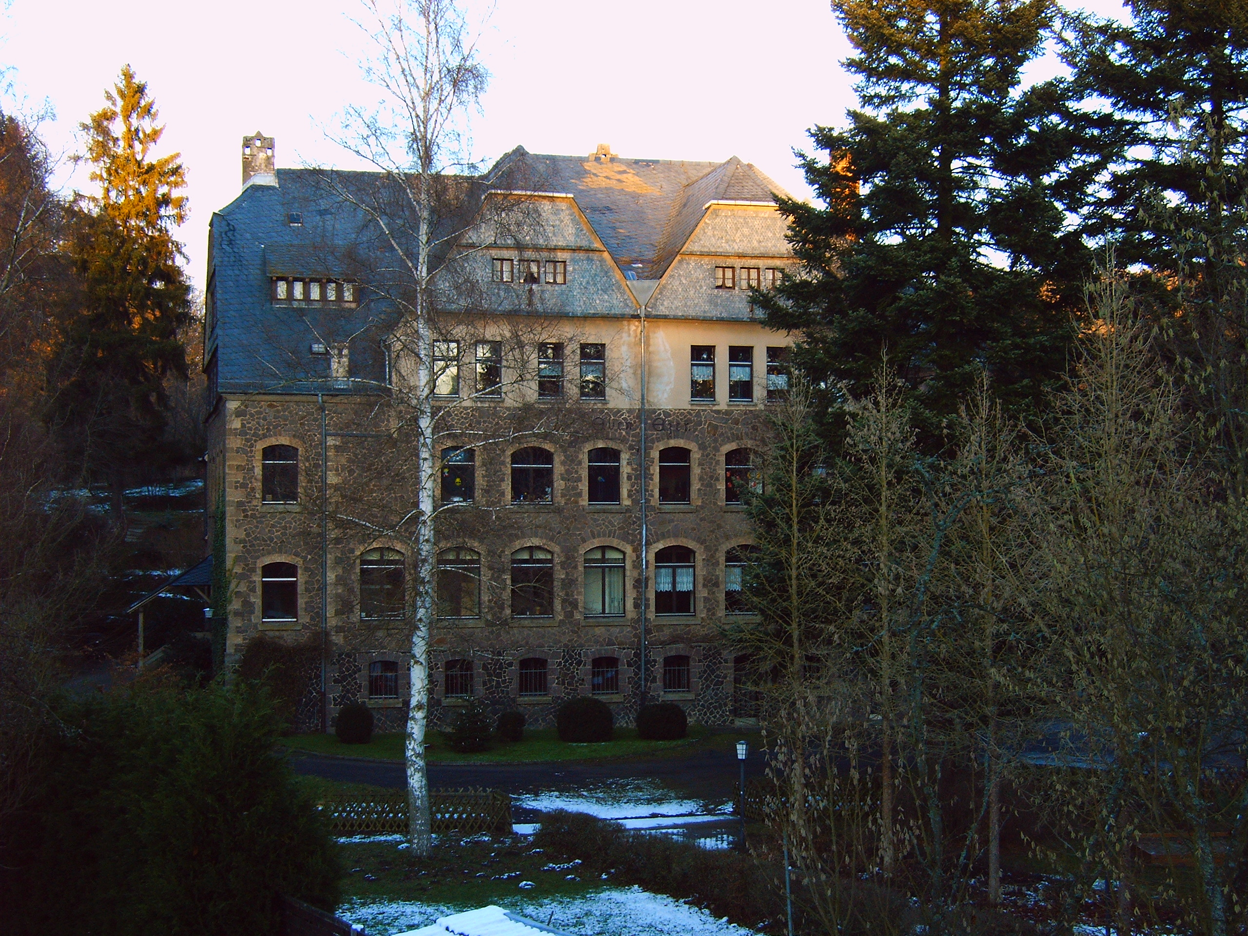 Description: children's home, main building Source: Alexander Dreyer Site views of Niederwörresbach, Germany, Photographed by myself, dec. 2005